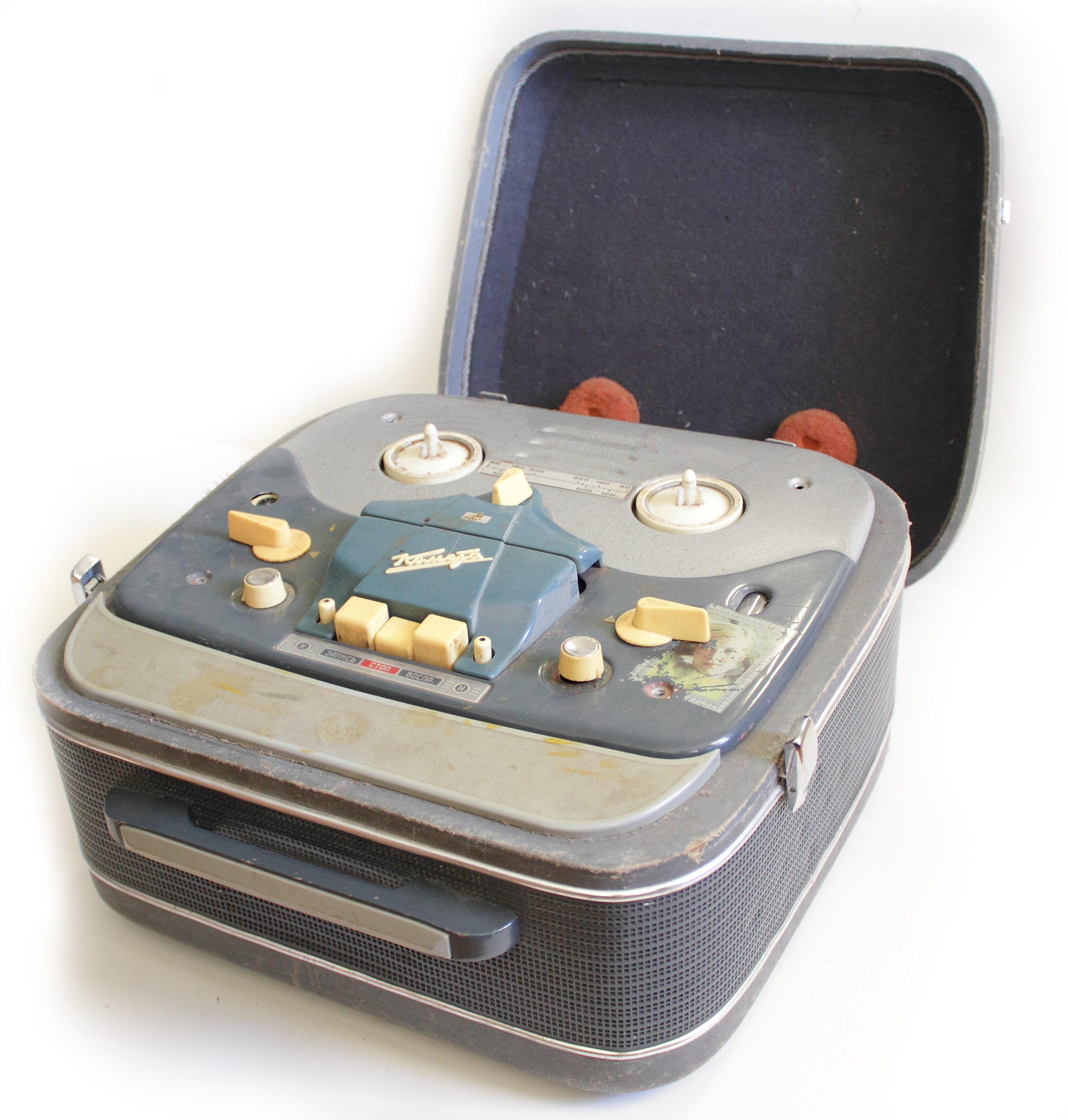 Soviet tape recorder Kometa MG-201M, three-speed, two-track mono, 1968